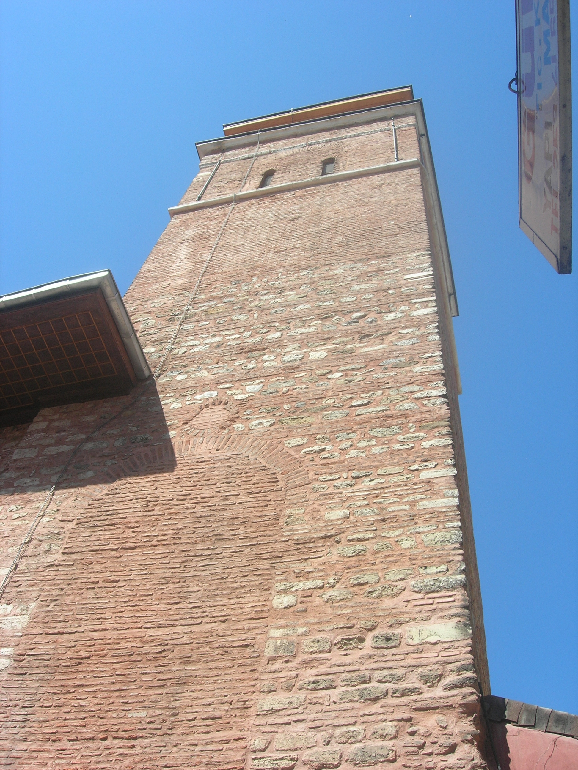 The minaret of the Arap mosque in Istanbul